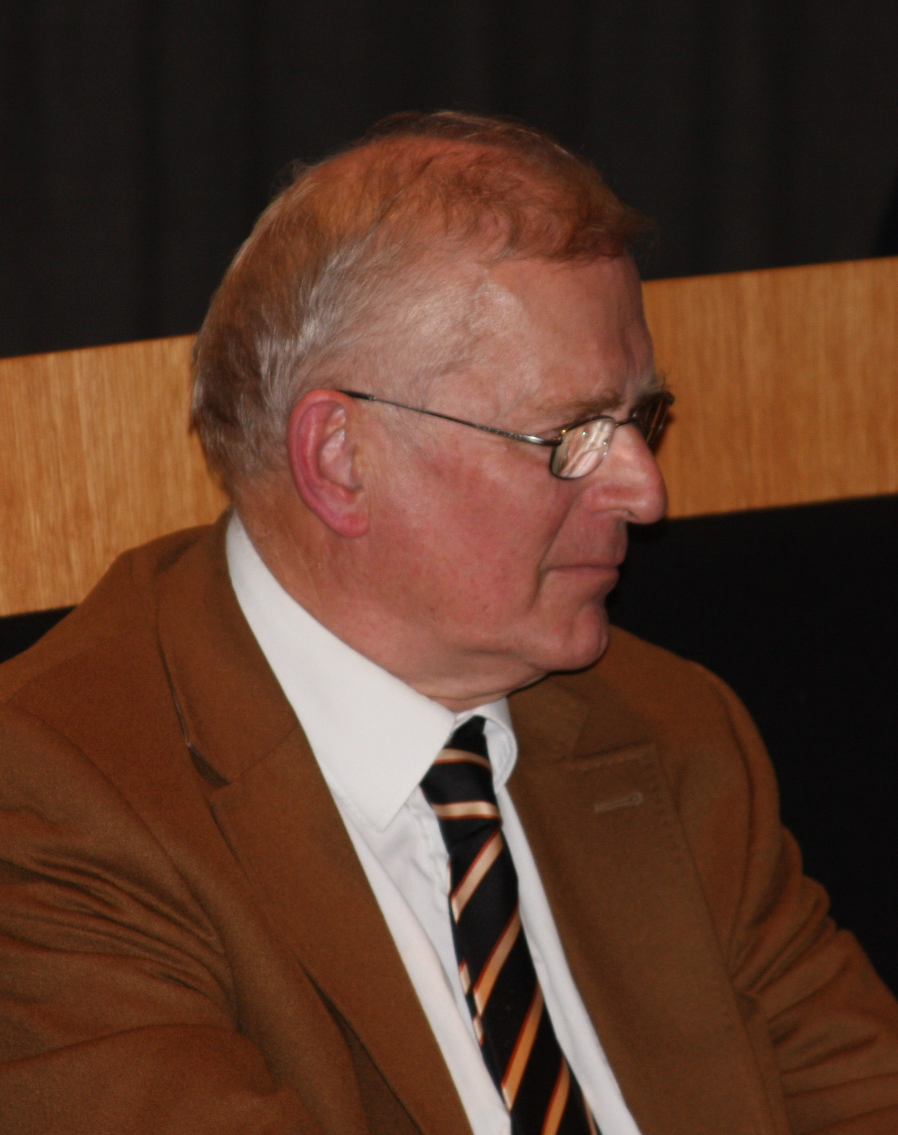 Mr Ingjald Örbech Sörheim, previous state secretary of Prime Minister Gro Harlem Brundtland, Norway